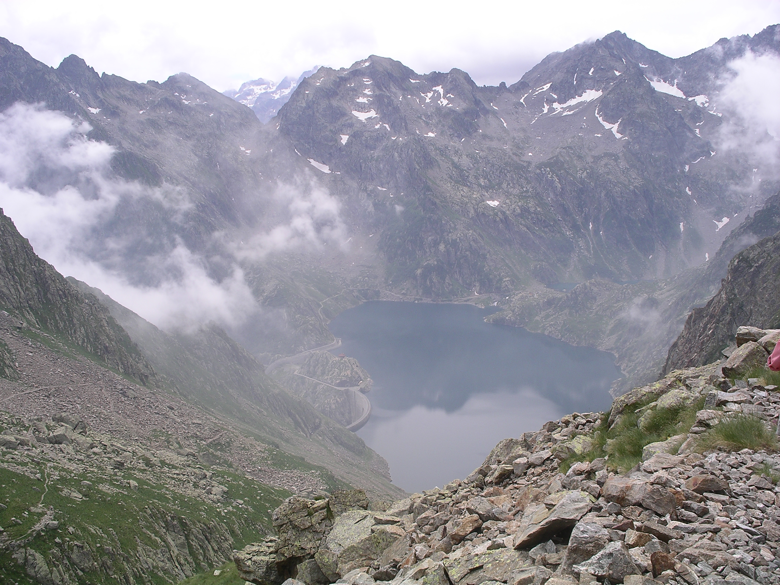 Chiotas lake, Gesso Valley (CN), Italy Il lago del Chiotas visto dal Vallone del Chiapous, Valle Gesso (CN)